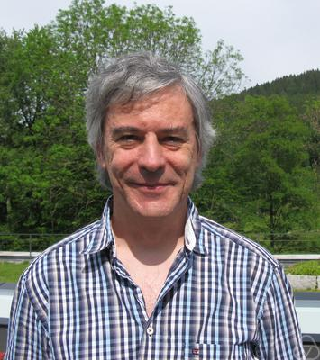 Anton Zorich, Oberwolfach 2011